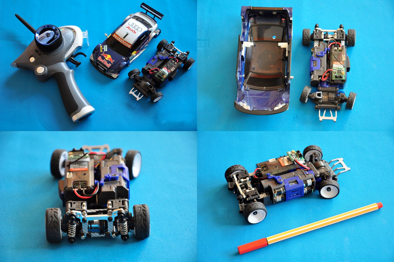 Mini-Z AWD with SAS and Transmitter KT-18